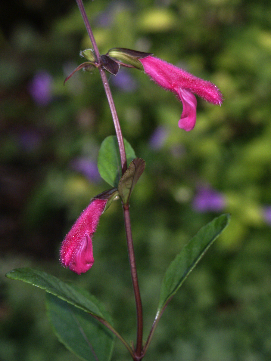 South Miami, Florida